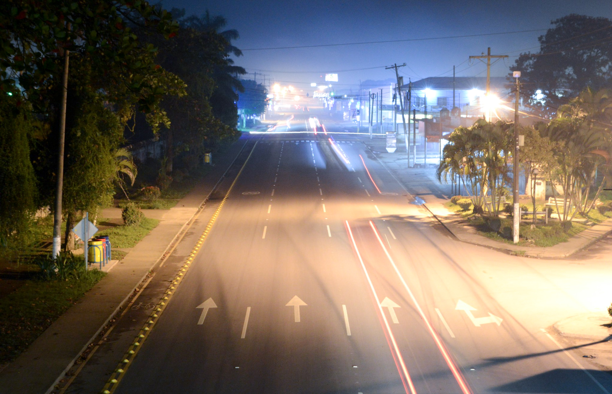 Street in Puerto Barrios Guatemala